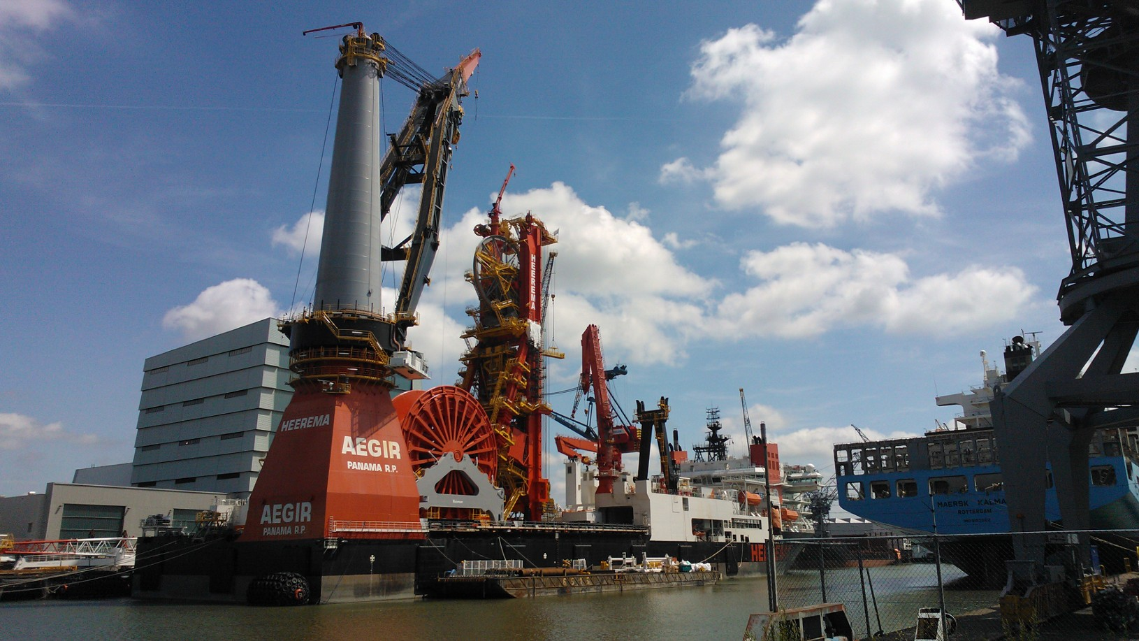 the DCV Aegir, undergoing finale equipment installation in Rotterdam